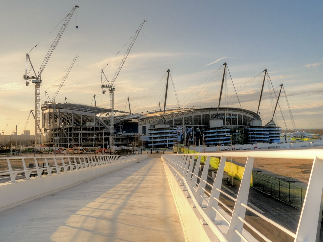 Etihad Stadium from the Etihad Campus bridge in March 2015 with North Stand expansion work ongoing.